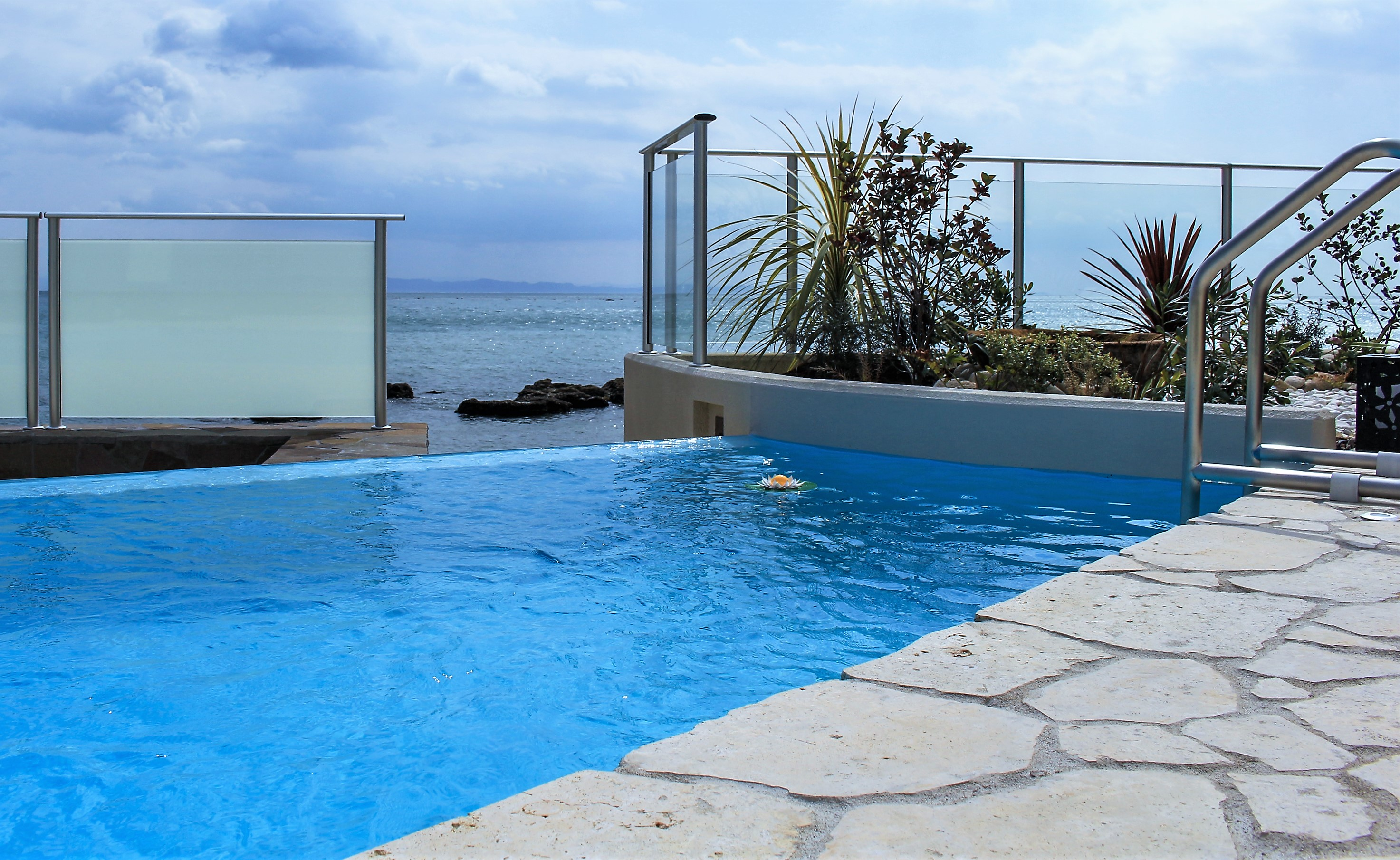 Infinity pool - Villa Mon Temps-Awaji